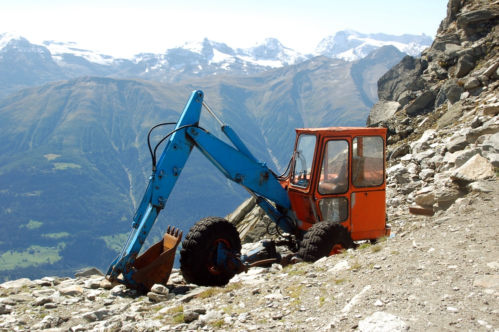 Rock, Eggishorn, Switzerland